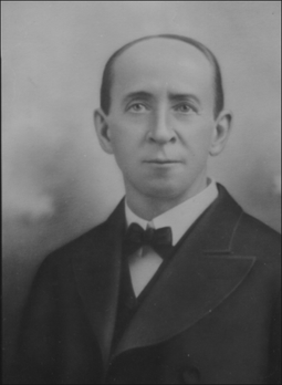 Lucien Lucius Nunn as an adult.